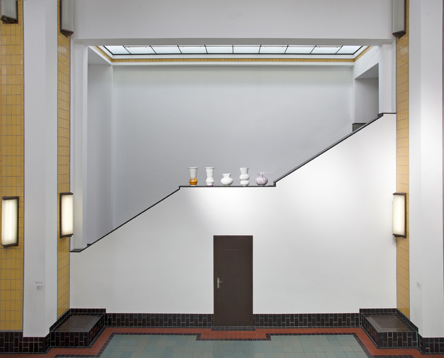 work by Jurgen Partenheimer